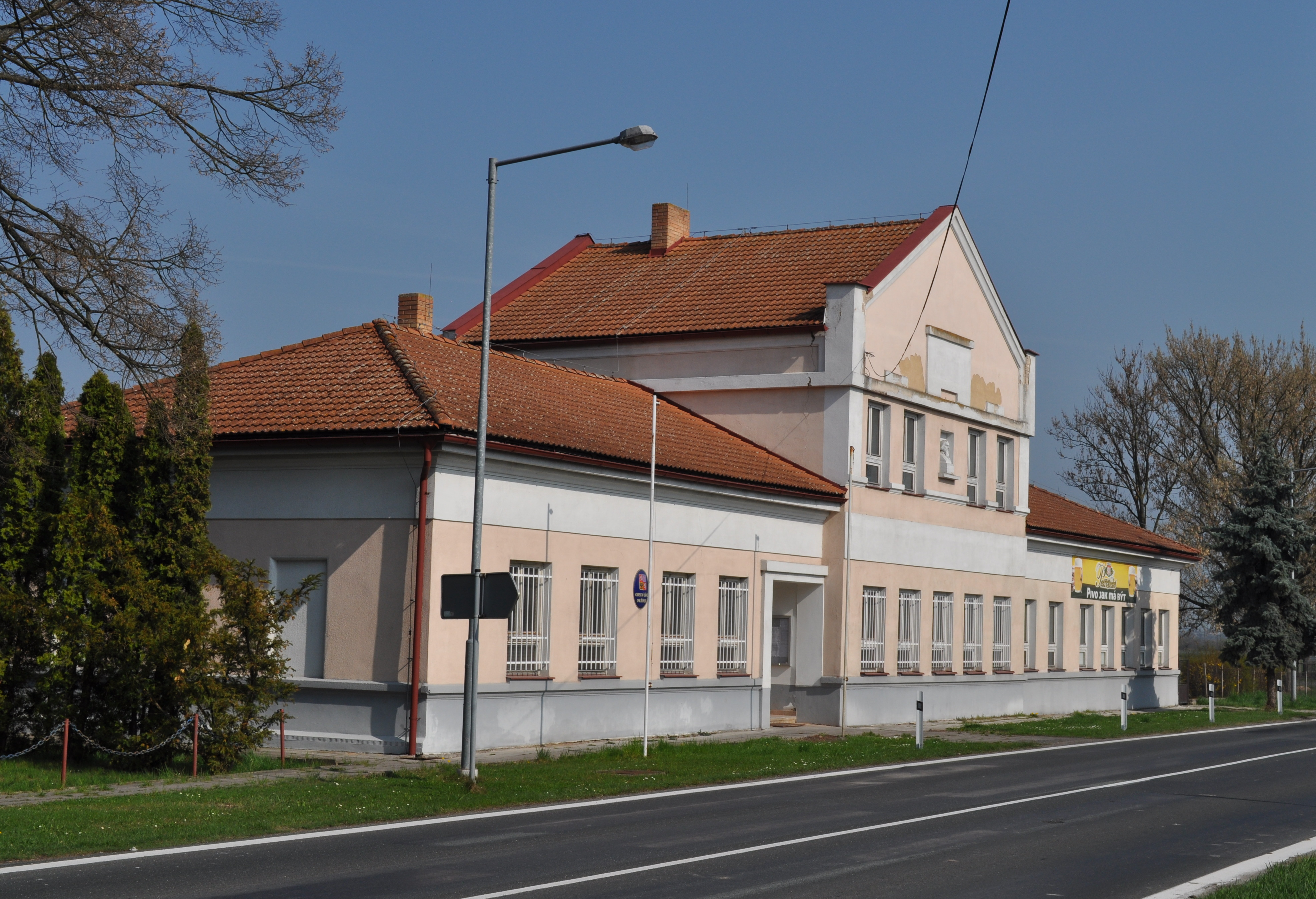 Municipal office Okřínek